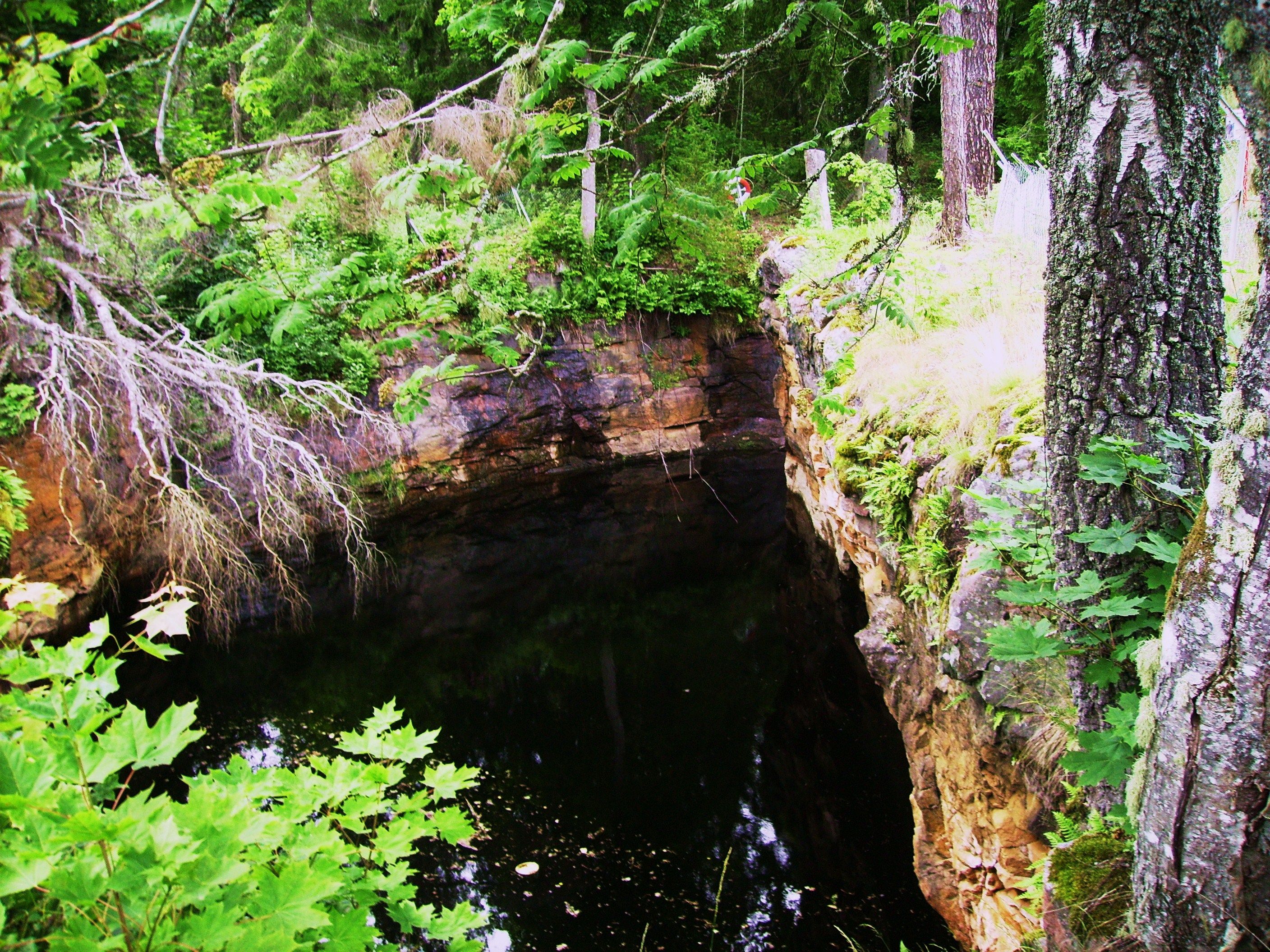 Picture of Skottvångs gruva in Södermanland